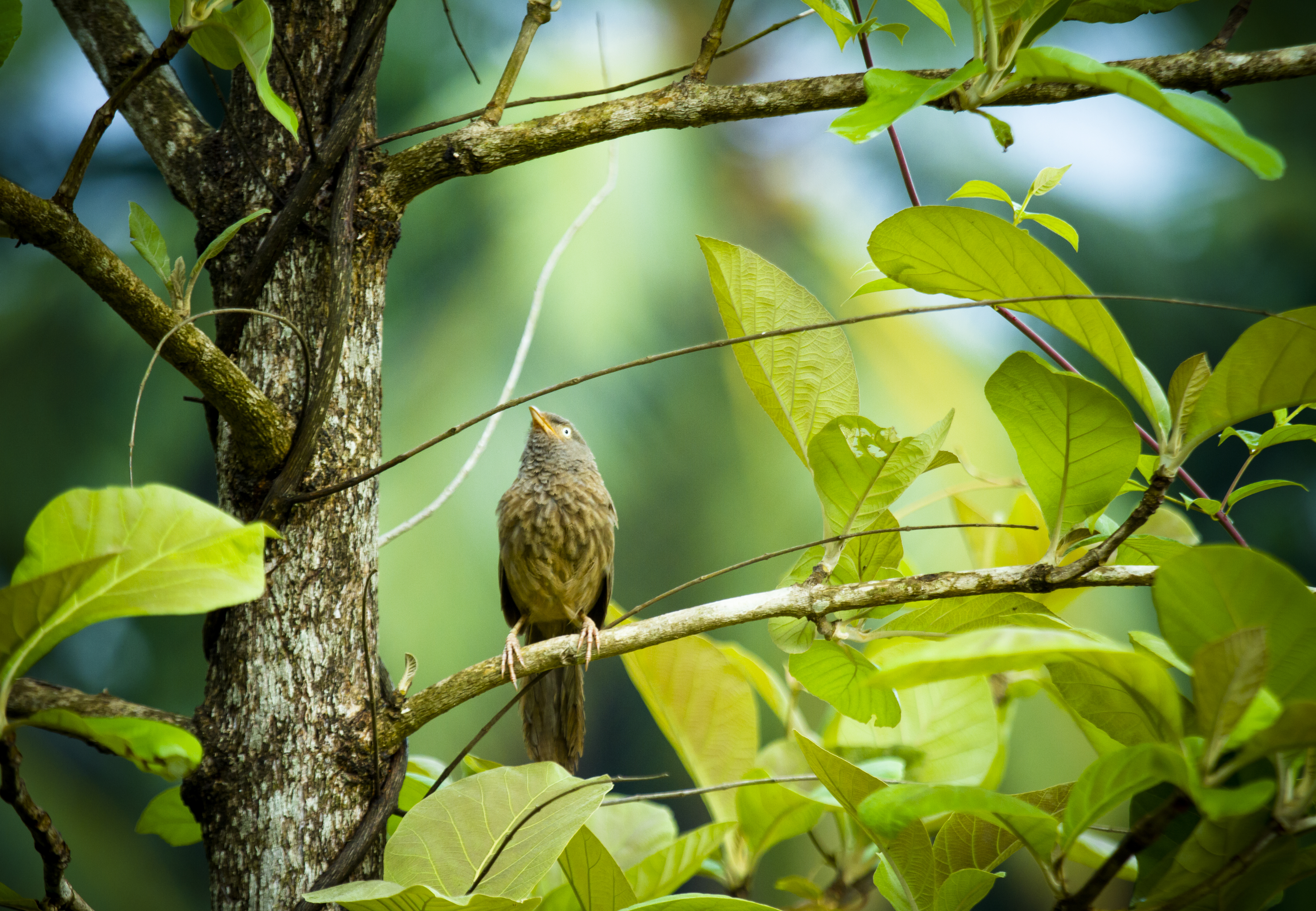 A Jungle Babbler perched on a branch calling the rest of them. Clicked in Dharmasthala, Mangalore